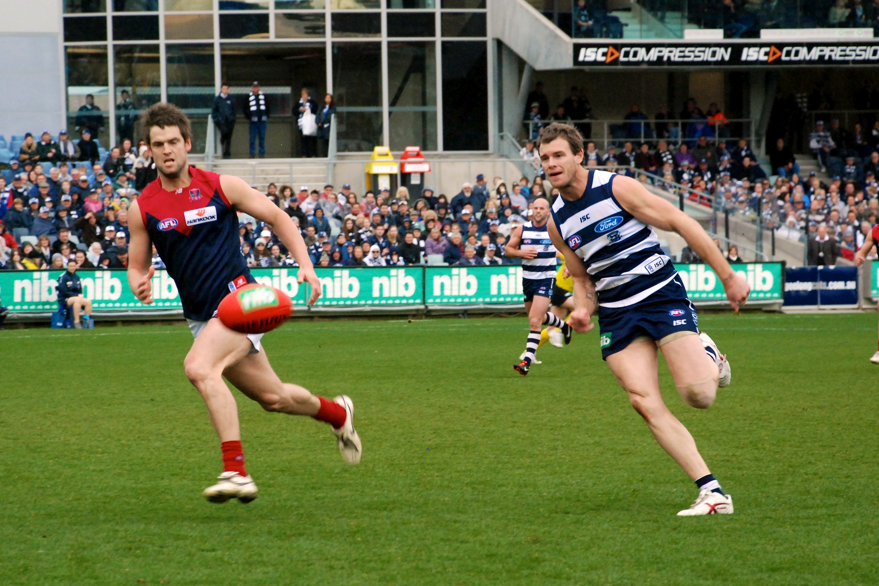 Cameron Mooney in Round 19 of the 2011 AFL season